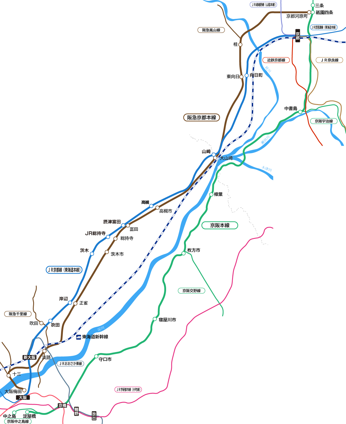 Railway-Line-Osaka-Kyoto